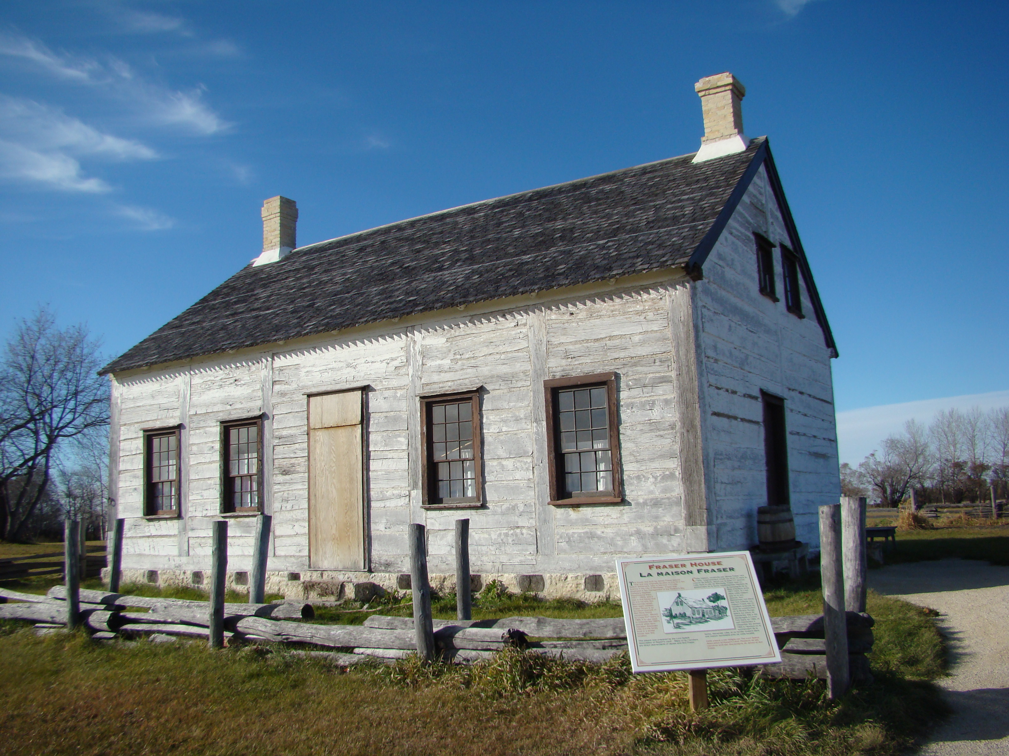 Lower Fort Garry Historic Site Manitoba Canada